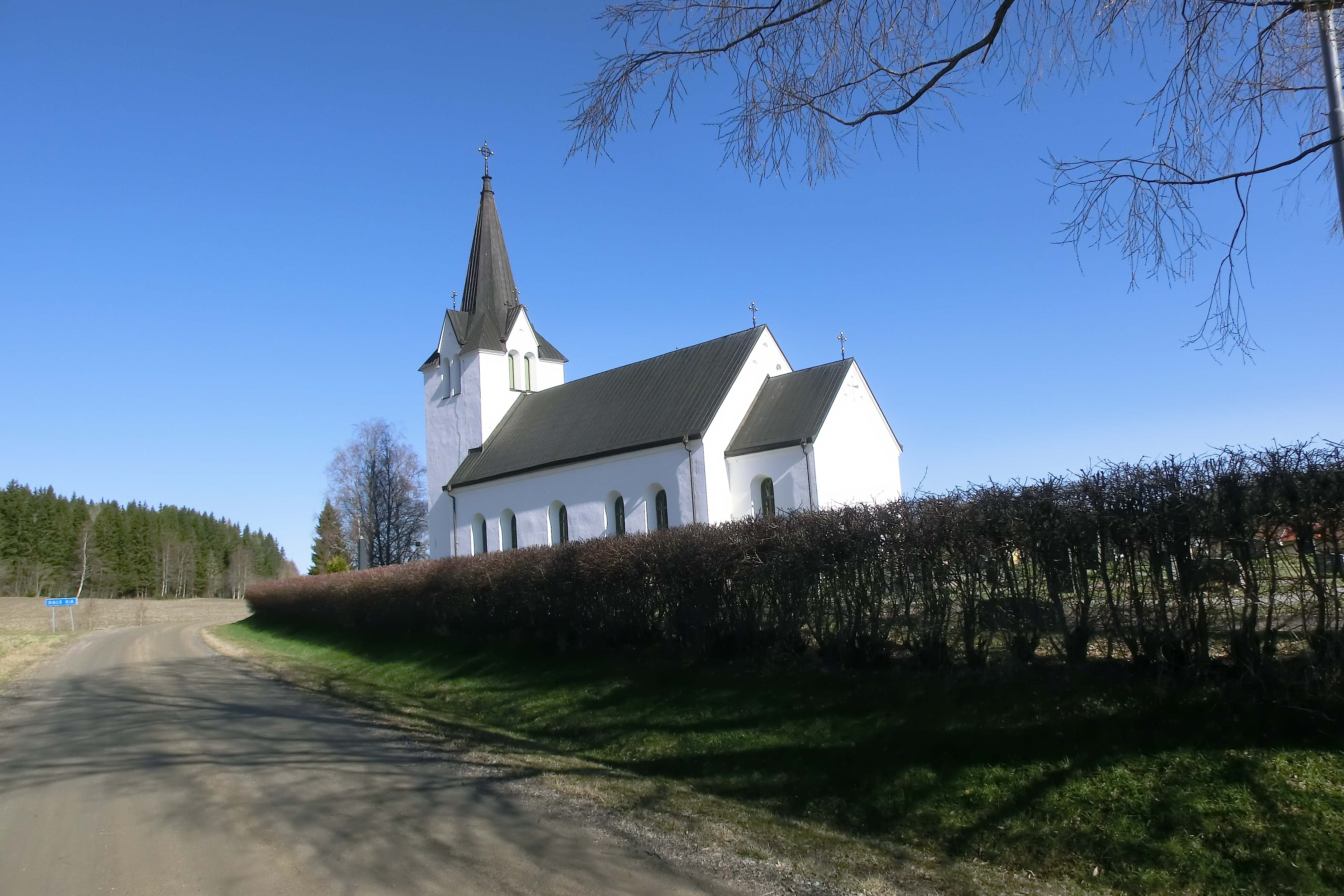 Church of Dal parish, Sweden.